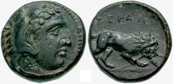 Kings of Macedonia. Perdikkas III. 365-359 BCE Head of Herakles right, wearing lion's skin / Above, ΠΕΡΔΙΚ-ΚΑ (in exergue), lion standing right, holding broken javelin in his jaws